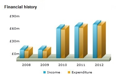 Consumers' Association financial history five years to 30 June 2012. Chart from Charity Commission website.